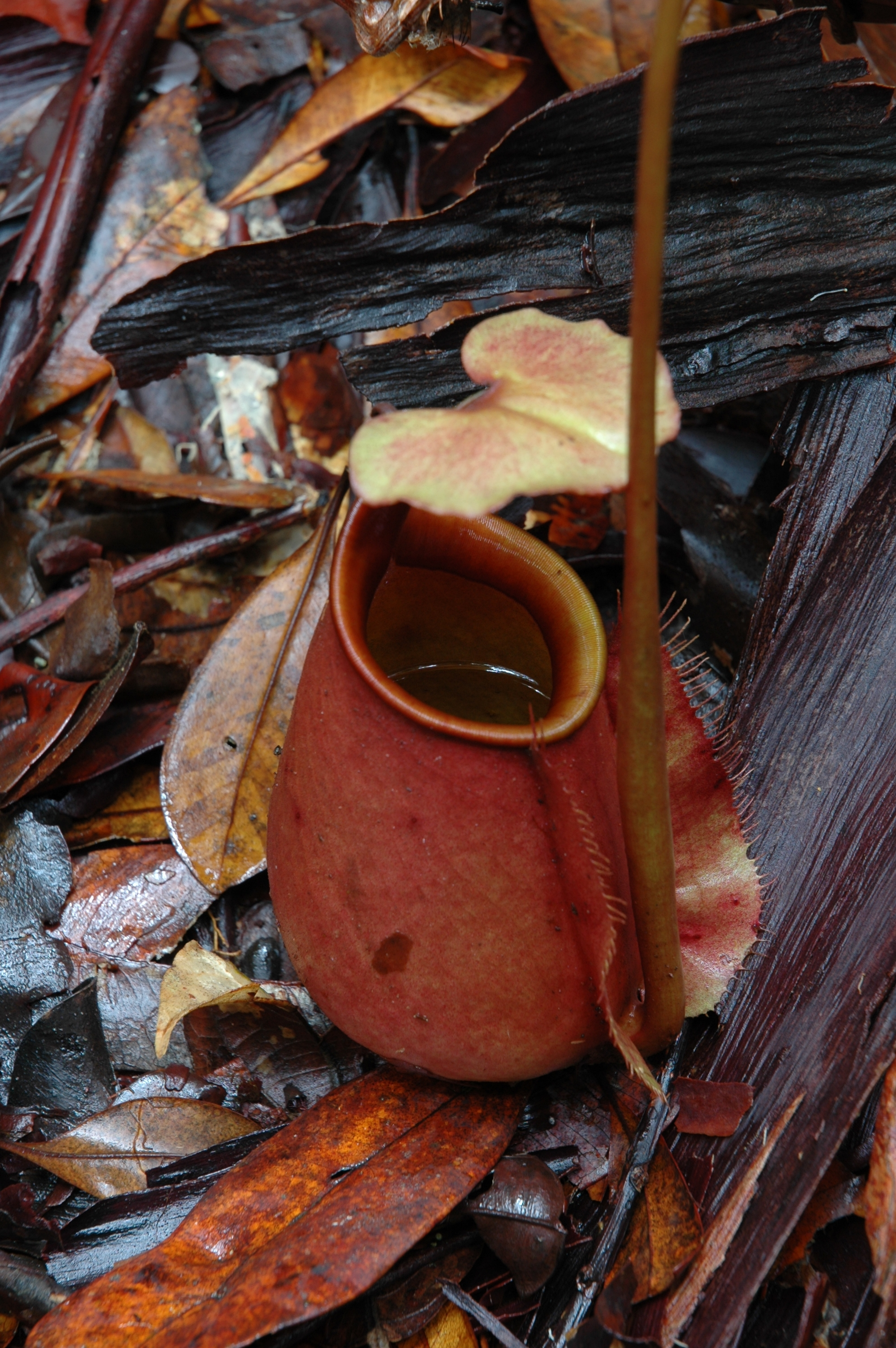 Nepenthes bicalcarata Headhunter's trail Mulu Sarawak by Jeremiah Harris